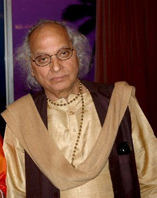 Indian singer Pandit Jasraj at the launch of his album Upasana